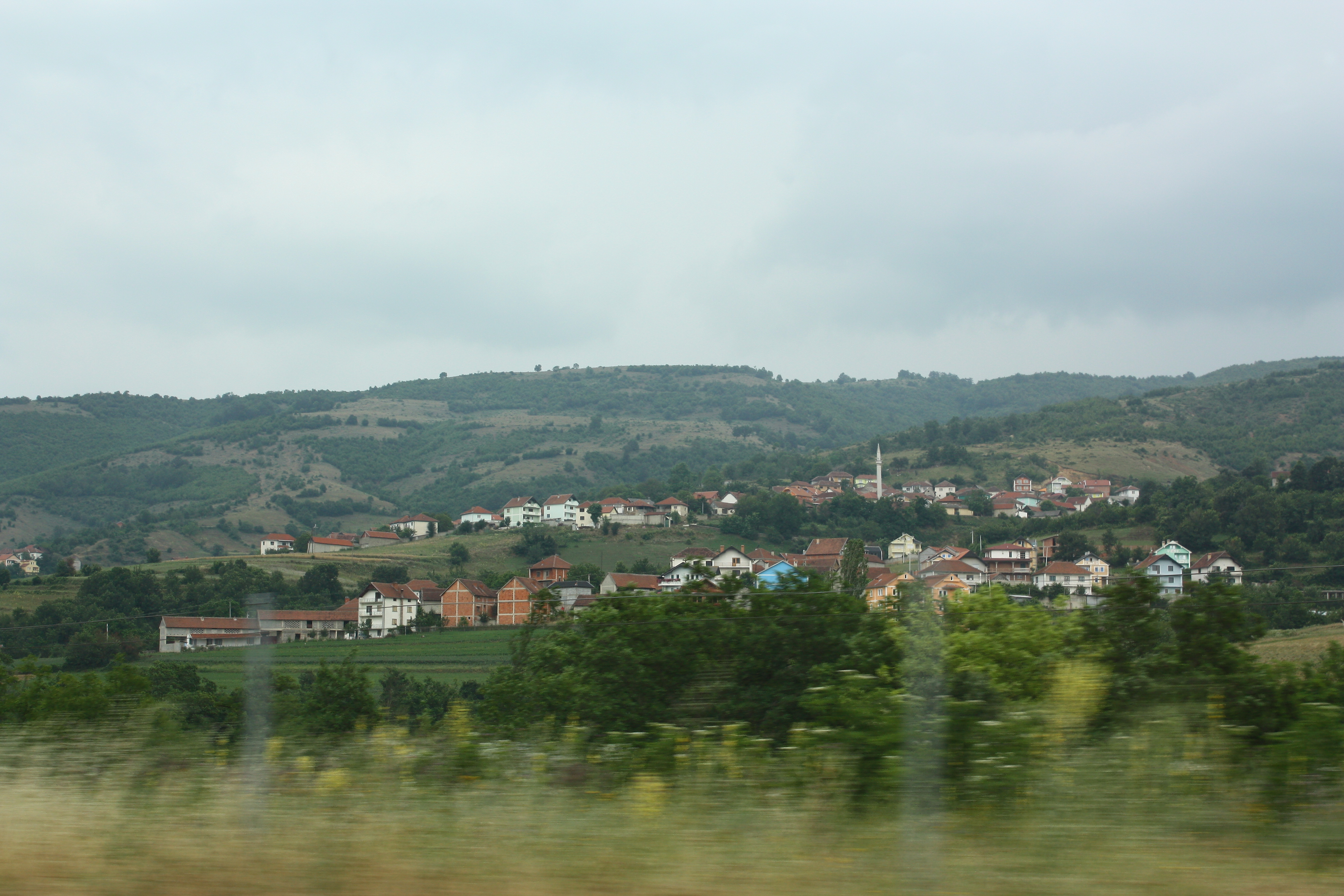 Novo Selo, Tetovo, Macedonia